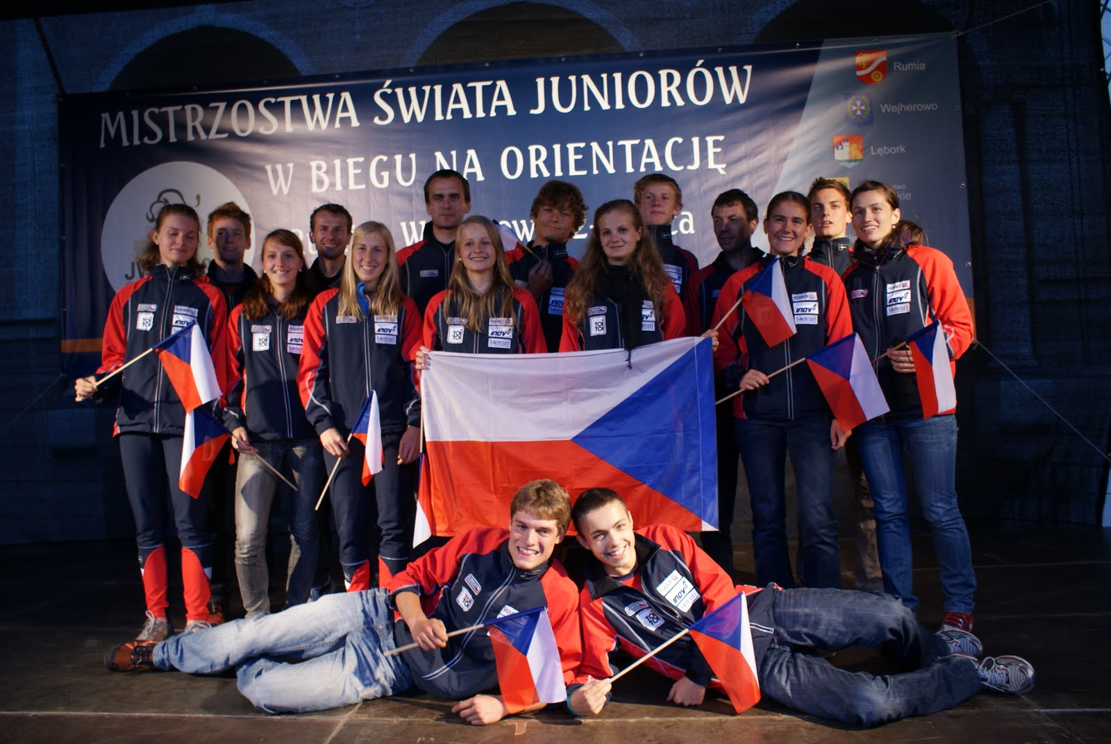 Junior national team of the Czech Republic at JWOC 2011